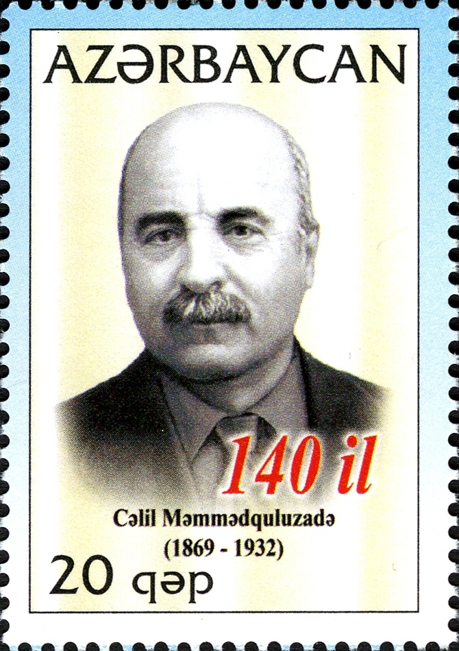 Jalil Mammadguluzadeh famous Azerbaijani satirist and writer.